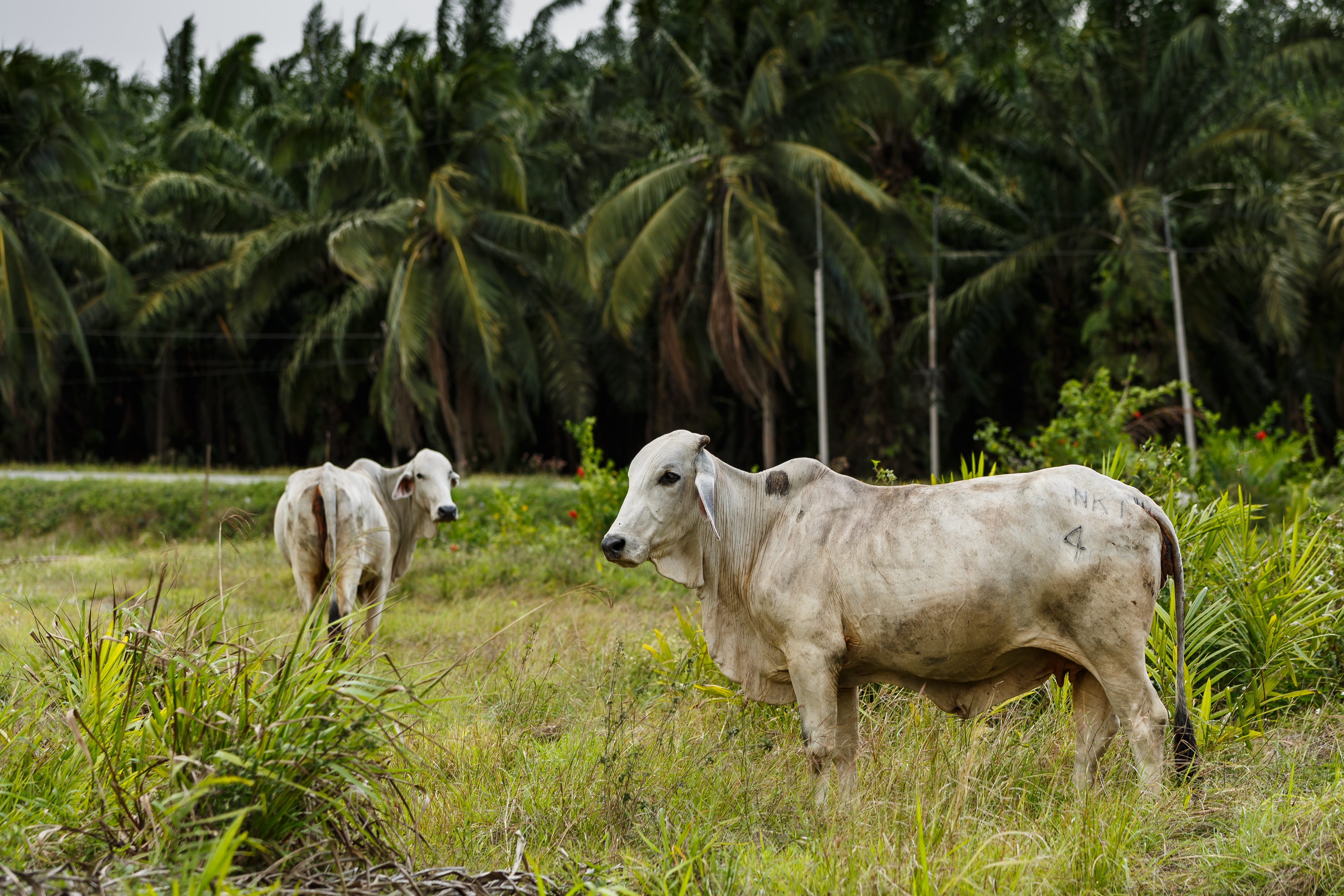 District Kunak, Sabah: Some cows at the Lahad Datu - Kunak Road.